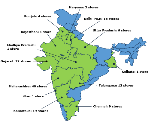 Map chart for Croma stores statewise.